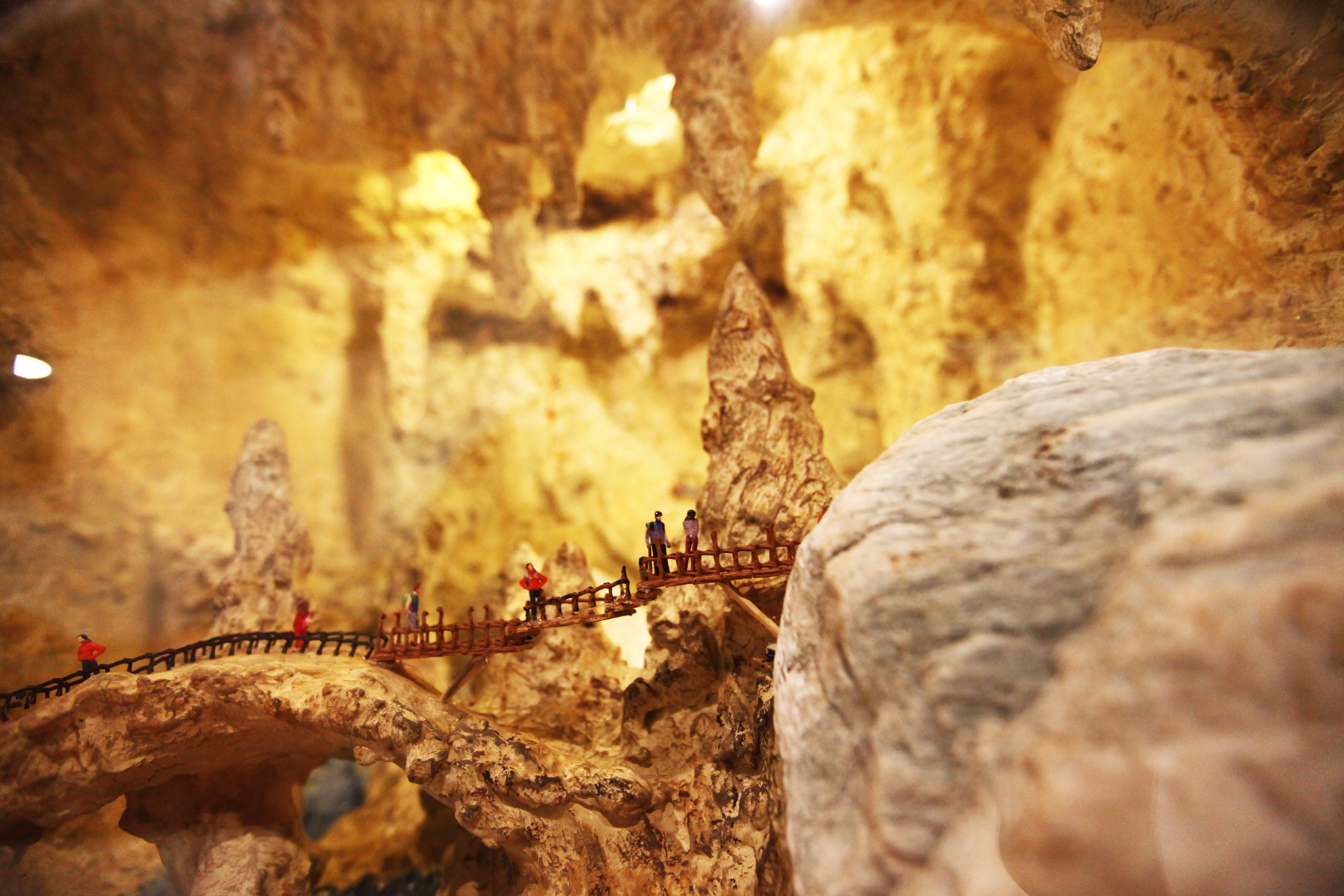 Close up of MinNature Exhibits